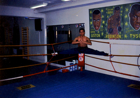 Umar Khan doing split in a boxing ring